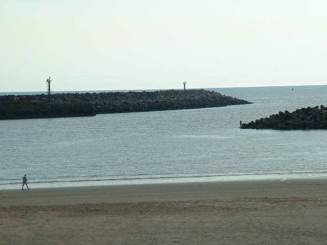 Afon Afan. Causeways and River mouth at Port Talbot, looking SW.